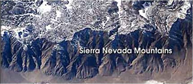 On February 6th 2003, astronauts aboard the International Space Station looked obliquely down at the steep eastern flank of California’s Sierra Nevada. Even from space the topography is impressive—the range drops nearly 11,000 feet from Mt. Whitney (under cloud, arrow), the highest mountain in the lower 48 states (14,494 ft), to the floor of Owens Valley (the elevation of the town of Lone Pine is 3,760 ft).